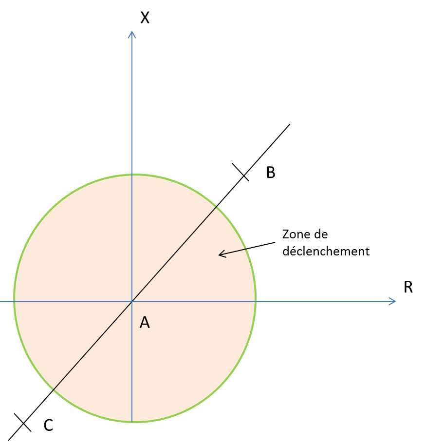 Diagram from an impedance characteristic for distance protection